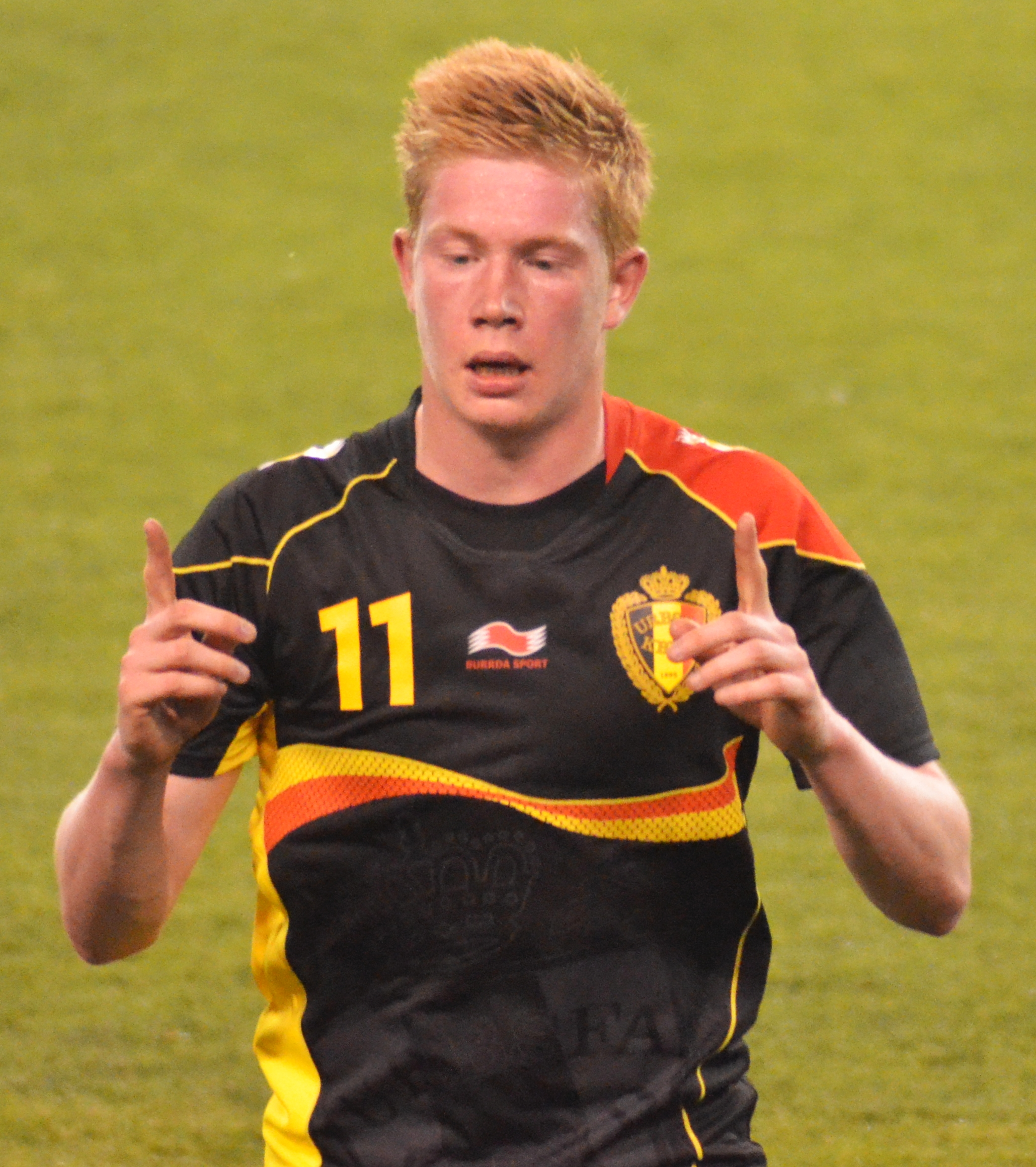 FirstEnergy Stadium Home of the Cleveland Browns